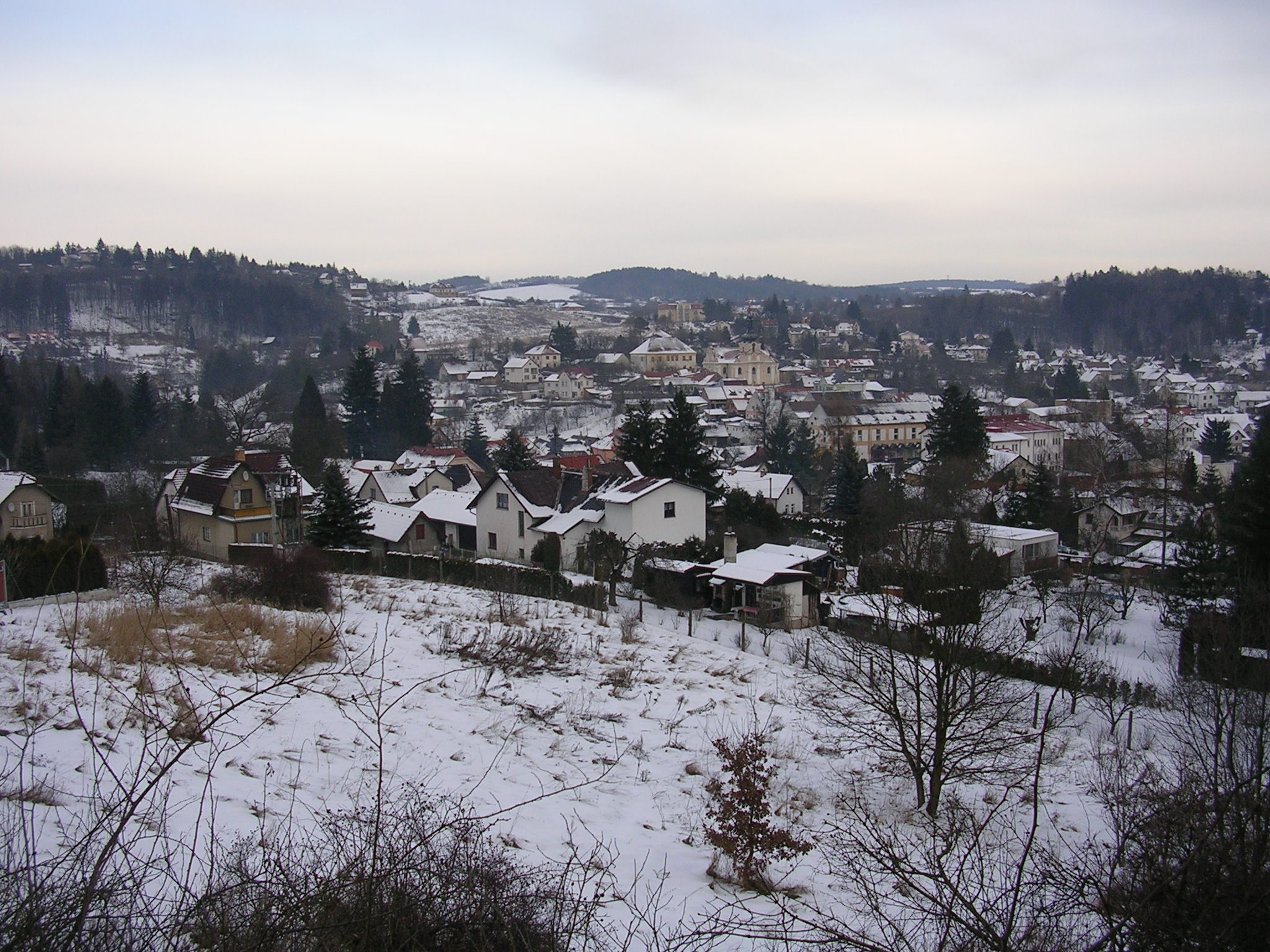 Mnichovice, the Czech Republic.